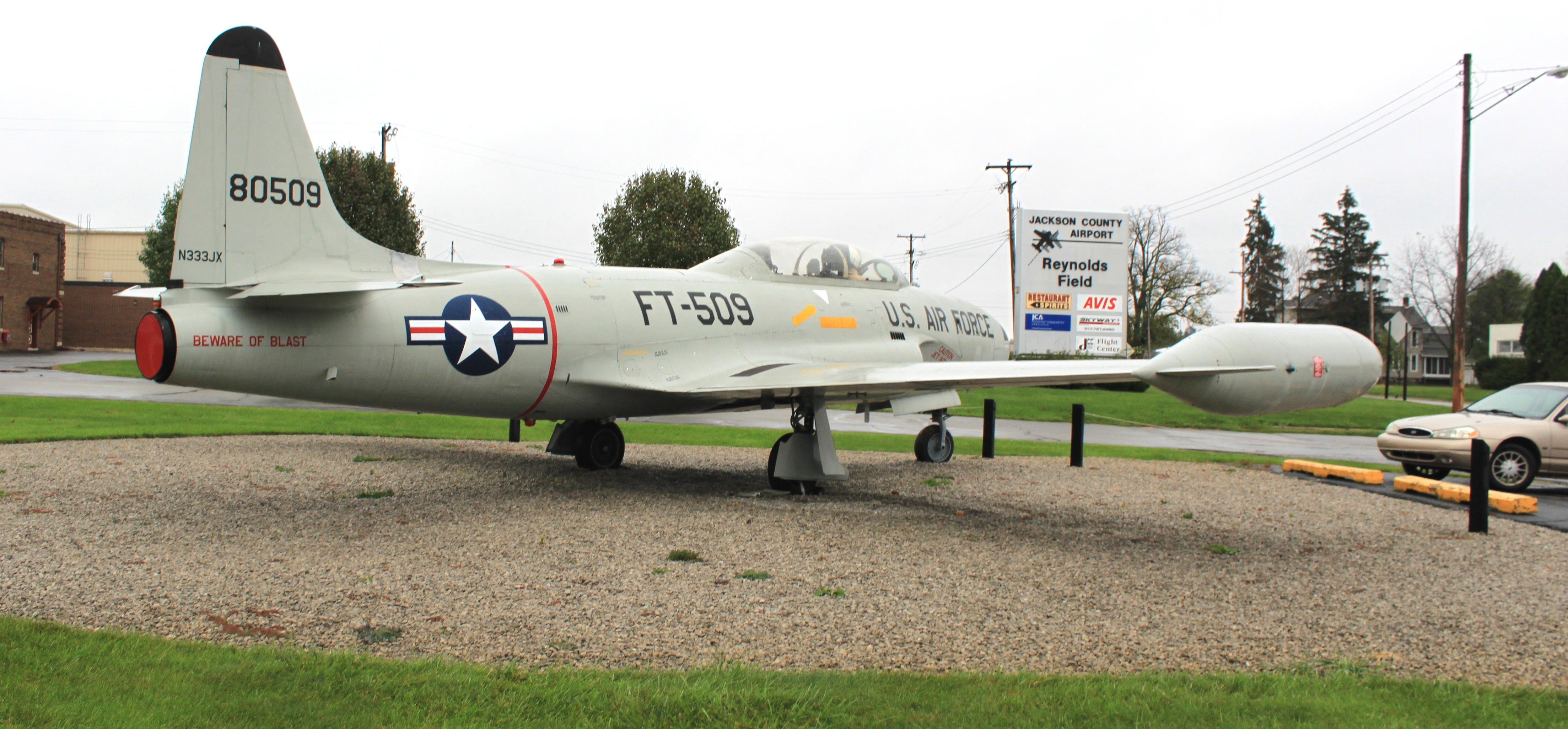 Lockheed T-33A Shooting Star jet trainer aircraft on display at Jackson County Airport, Jackson, Michigan